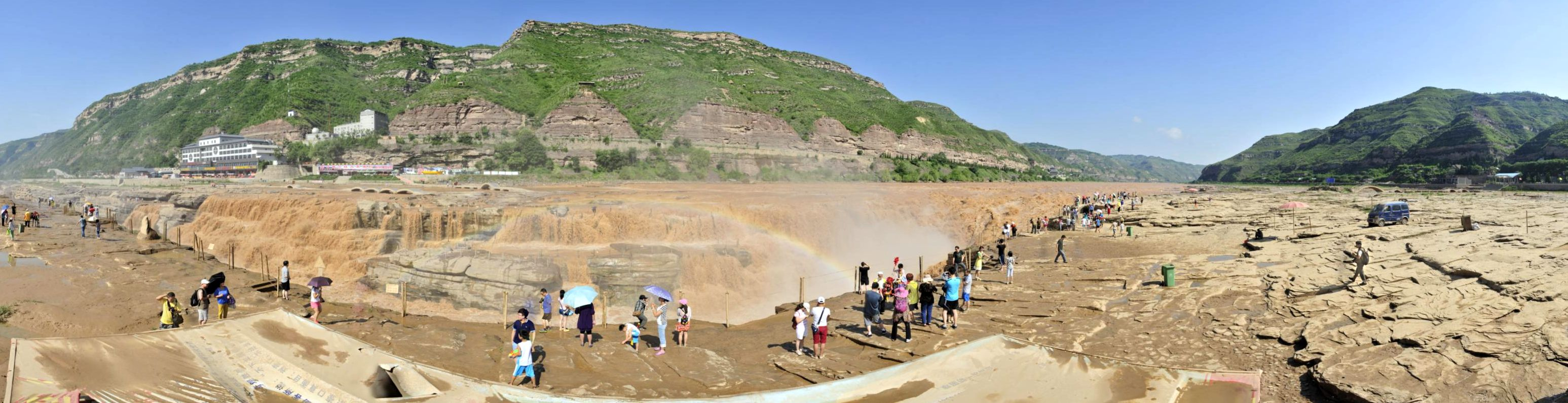 Hukou waterfall on the Huang he (Yellow river) in Shanxi/Shaanxi, China.